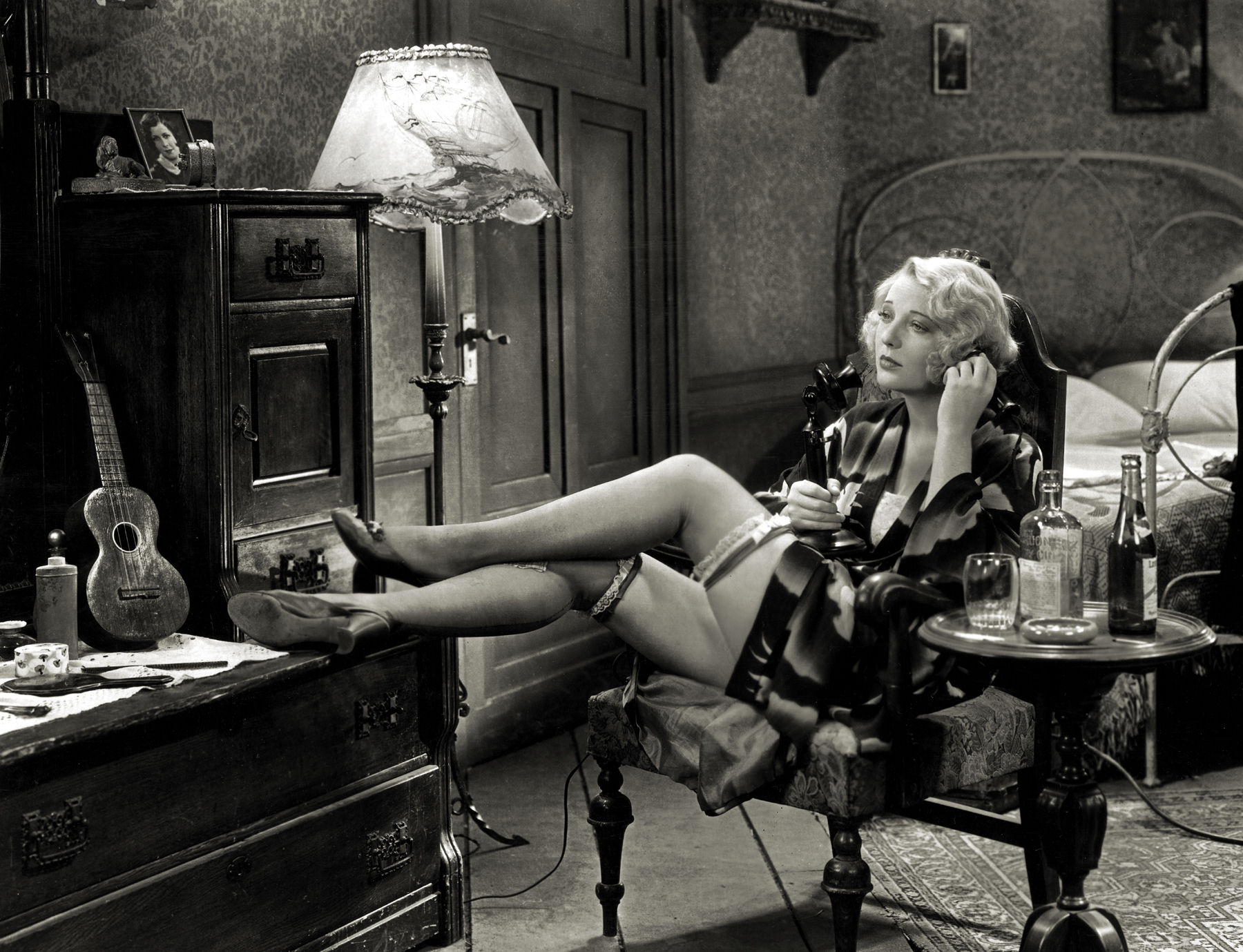 Dorothy Mackaill in American pre-Code thriller film Safe in Hell (1931).